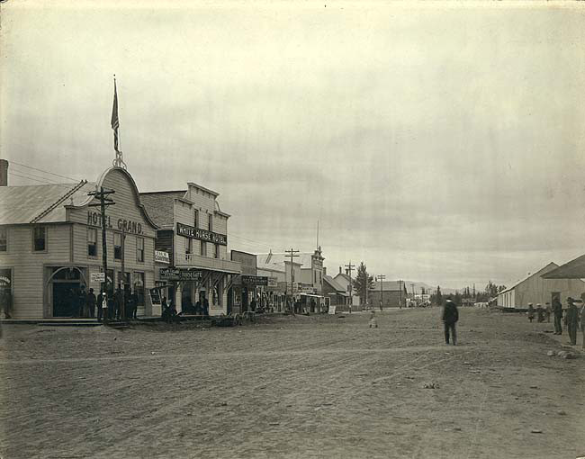 Shows the Grand Hotel, White Horse Hotel, Arctic Restaurant, Hotel Commercial on the left. Subjects (LCTGM): Hotels--Yukon Territory--White Horse; Restaurants--Yukon Territory--White Horse Subjects (LCSH): White Horse (Yukon); Grand Hotel (White Horse, Yukon); White Horse Hotel; Arctic Restaurant (White Horse, Yukon)